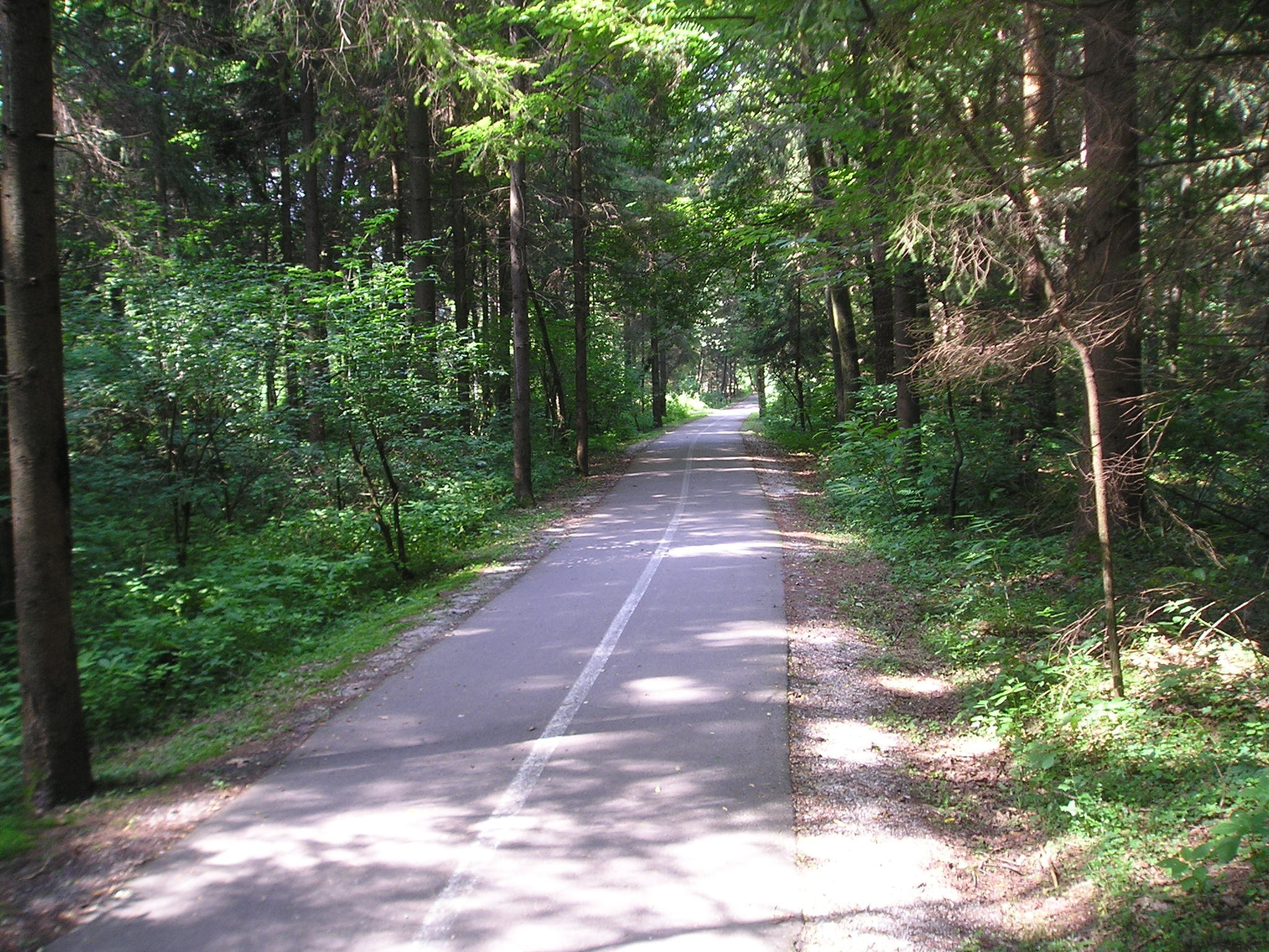 A bicycle lane between Rožna dolina and Koseze, built on the route of the former Pioneer railway in Ljubljana, Slovenia